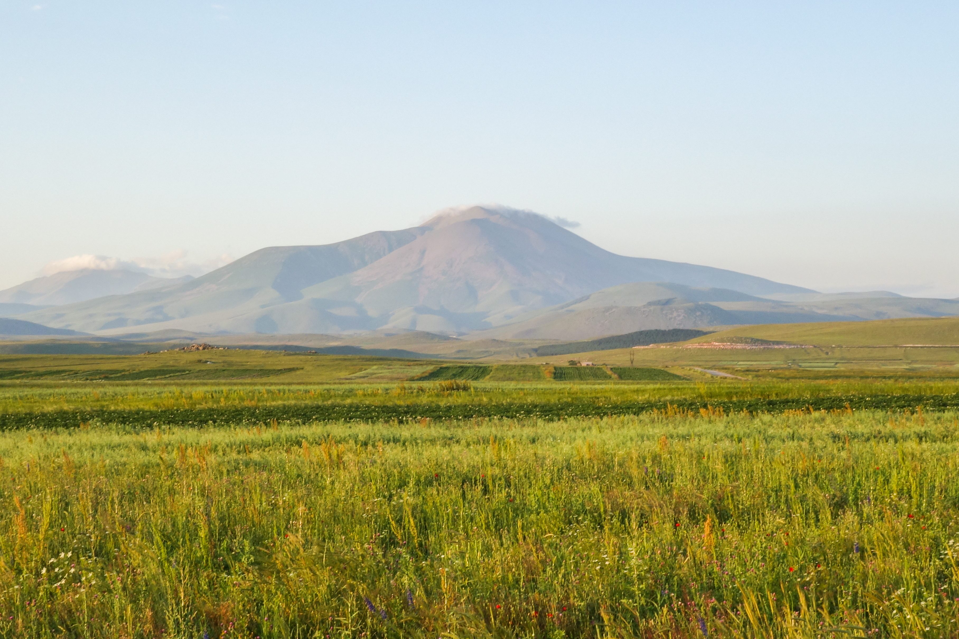 Mount Didi Abuli seen from south-west, Samtskhe-Javakheti, Georgia